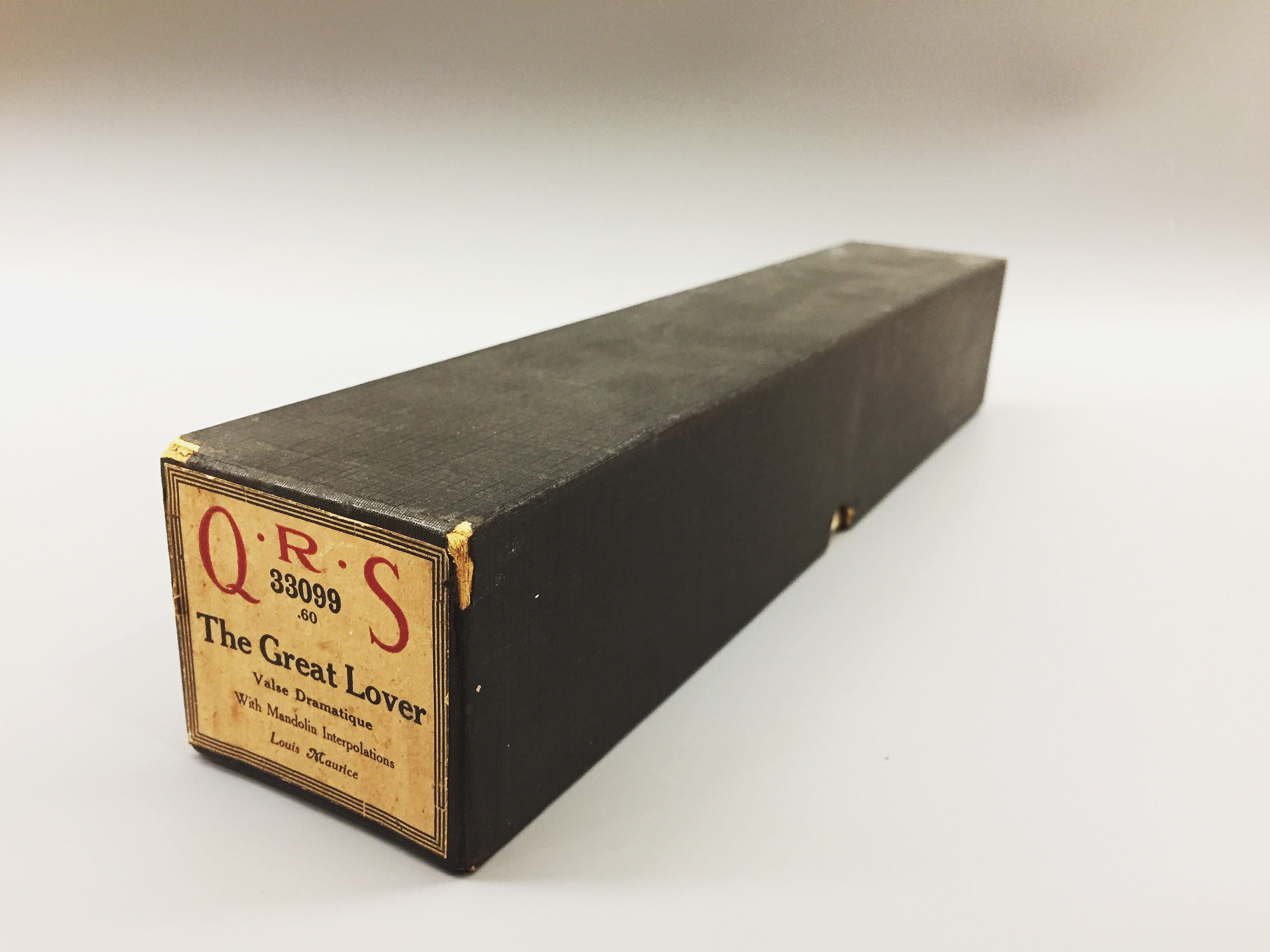 The Great lover: vals dramatique, Louis Maurice, QRS piano roll